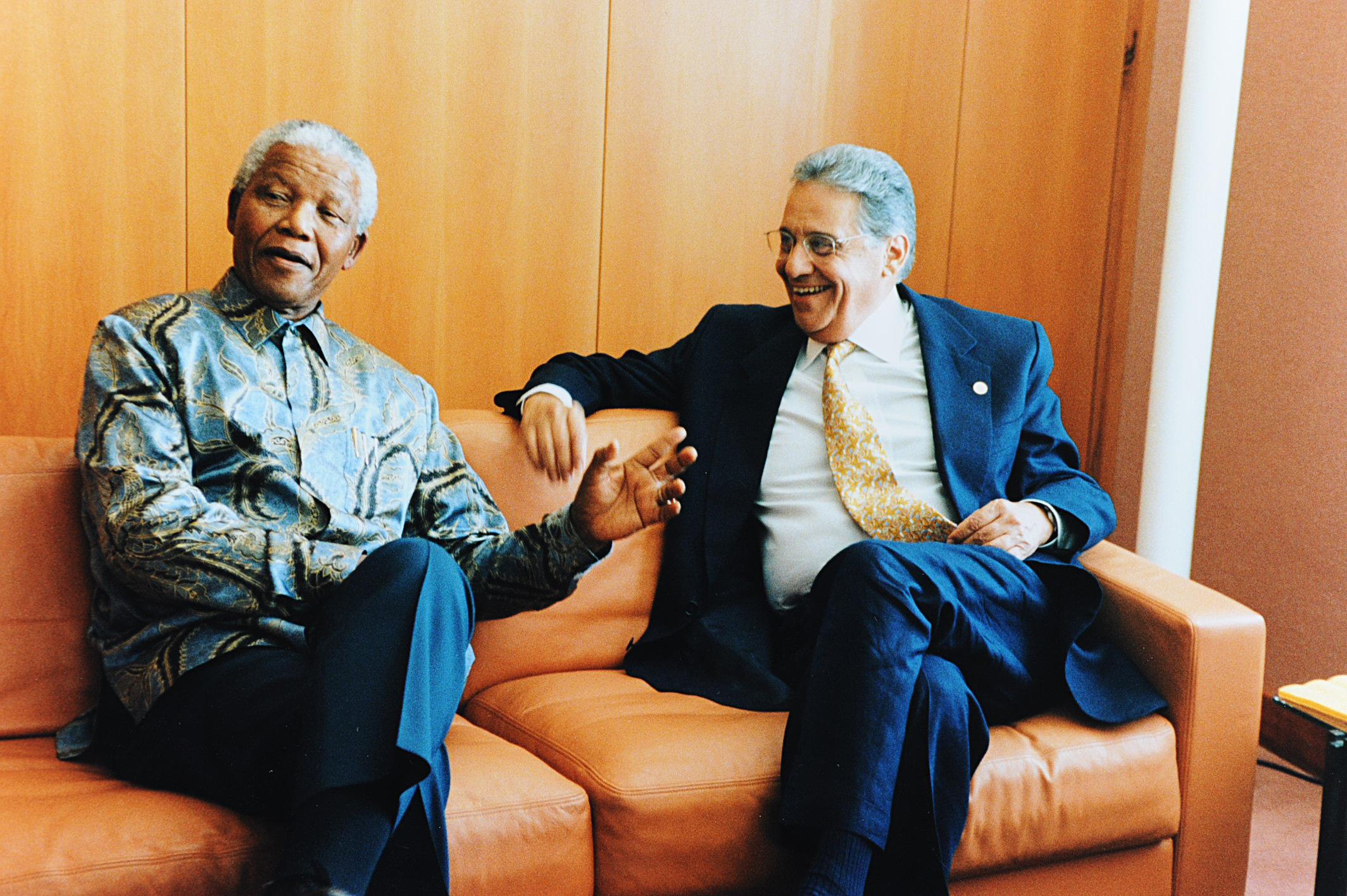 These photos may be reproduced provided attribution is given to the WTO and the WTO is informed. Photos: © WTO